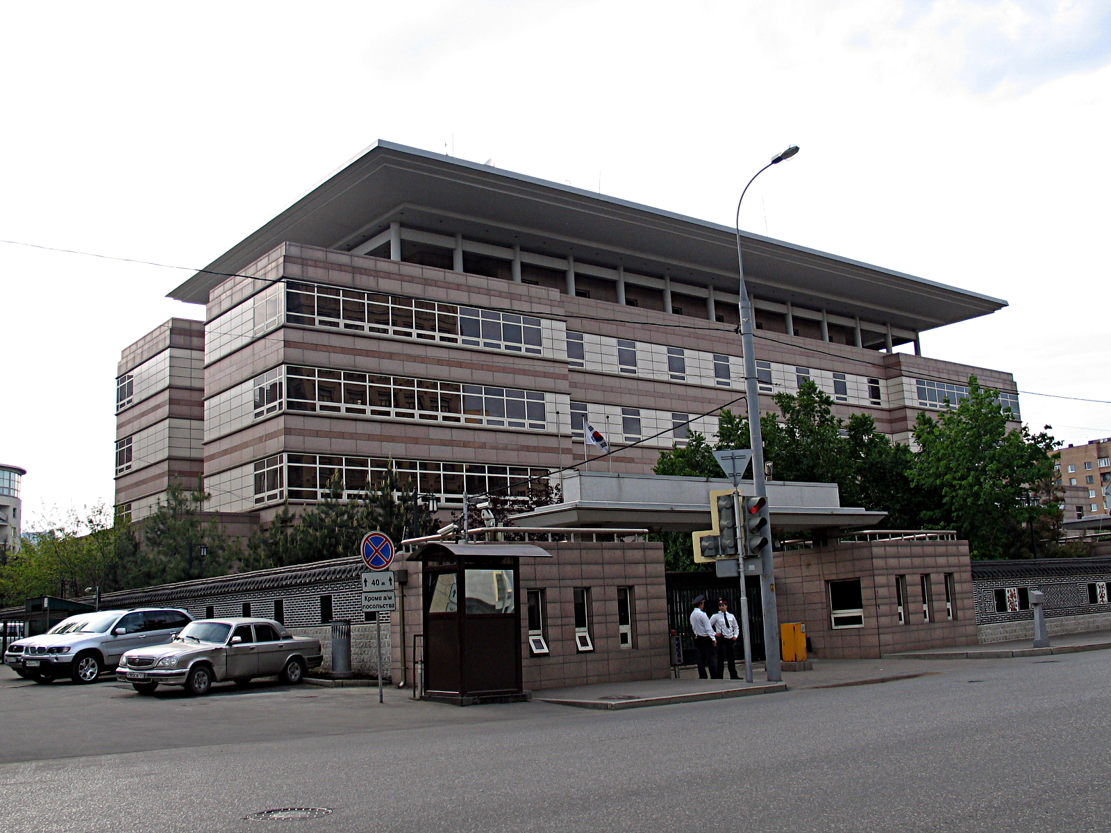 Building of the Embassy of South Korea in Moscow